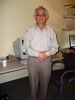 Jacob Bekenstein at Harvard.